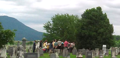 By custom since 2013, singers convene following an all-day singing from the Shenandoah Harmony at the grave of Anaias Davisson to sing his composition "Retirement." Photo by the Clinton Davis, 7 June, 2015.